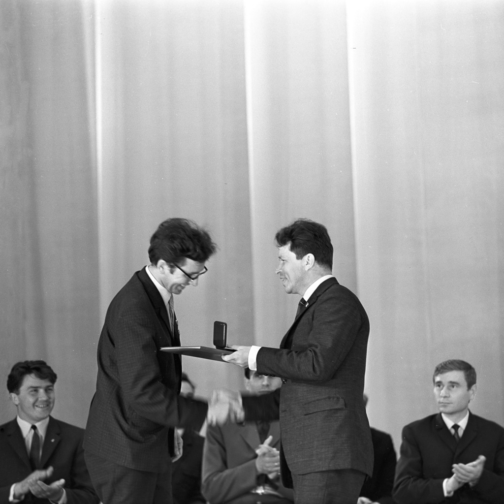 “Yevgeny Tyazhelnikov awarding Gennady Mesyats”. The first secretary of the Komsomol ( Communist Union of Youth) Yevgeny Tyazhelnikov (right) presents Russian physicist Gennady Mesyats the Lenin Komsomol award.